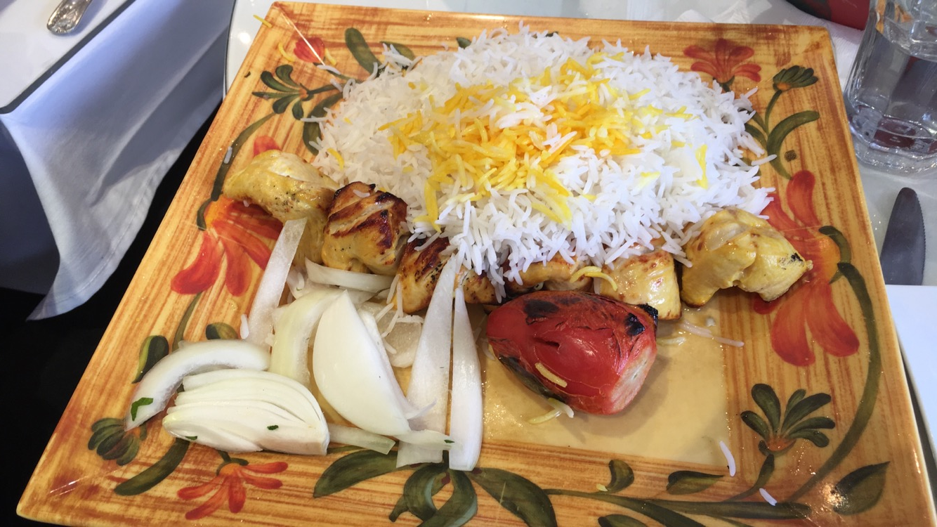 Jujeh Kabob dish on Nowruz 2016 in Washington, D.C.